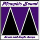 The original logo of the Memphis Sound Drum and Bugle Corps